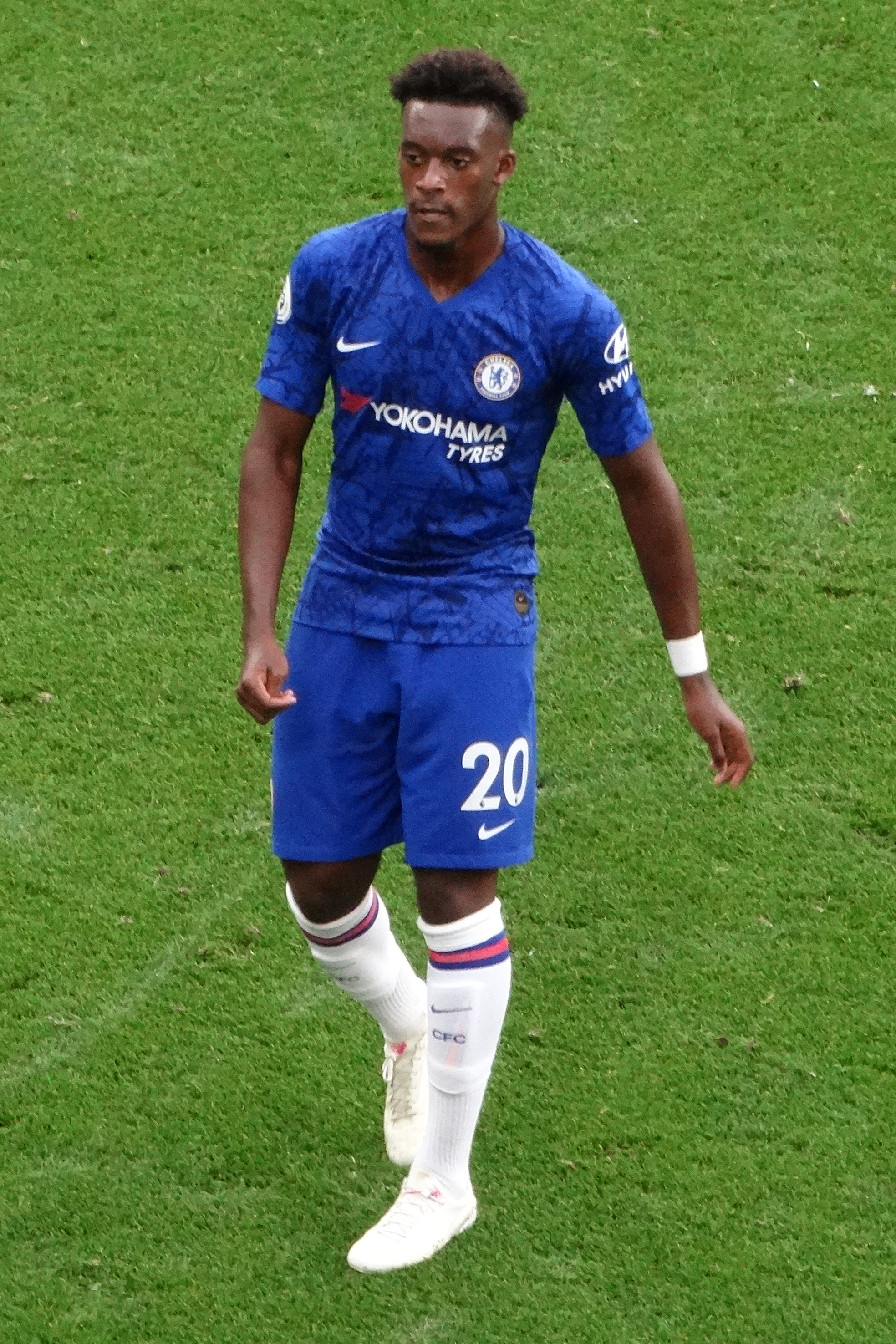 Callum Hudson-Odoi